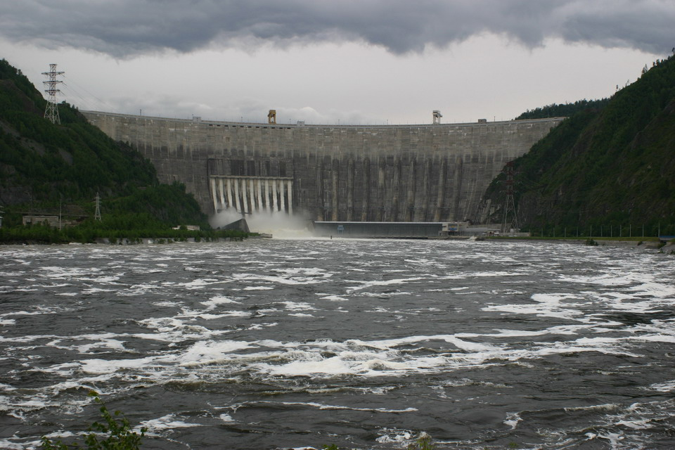 Sayano–Shushenskaya hydroelectric power station